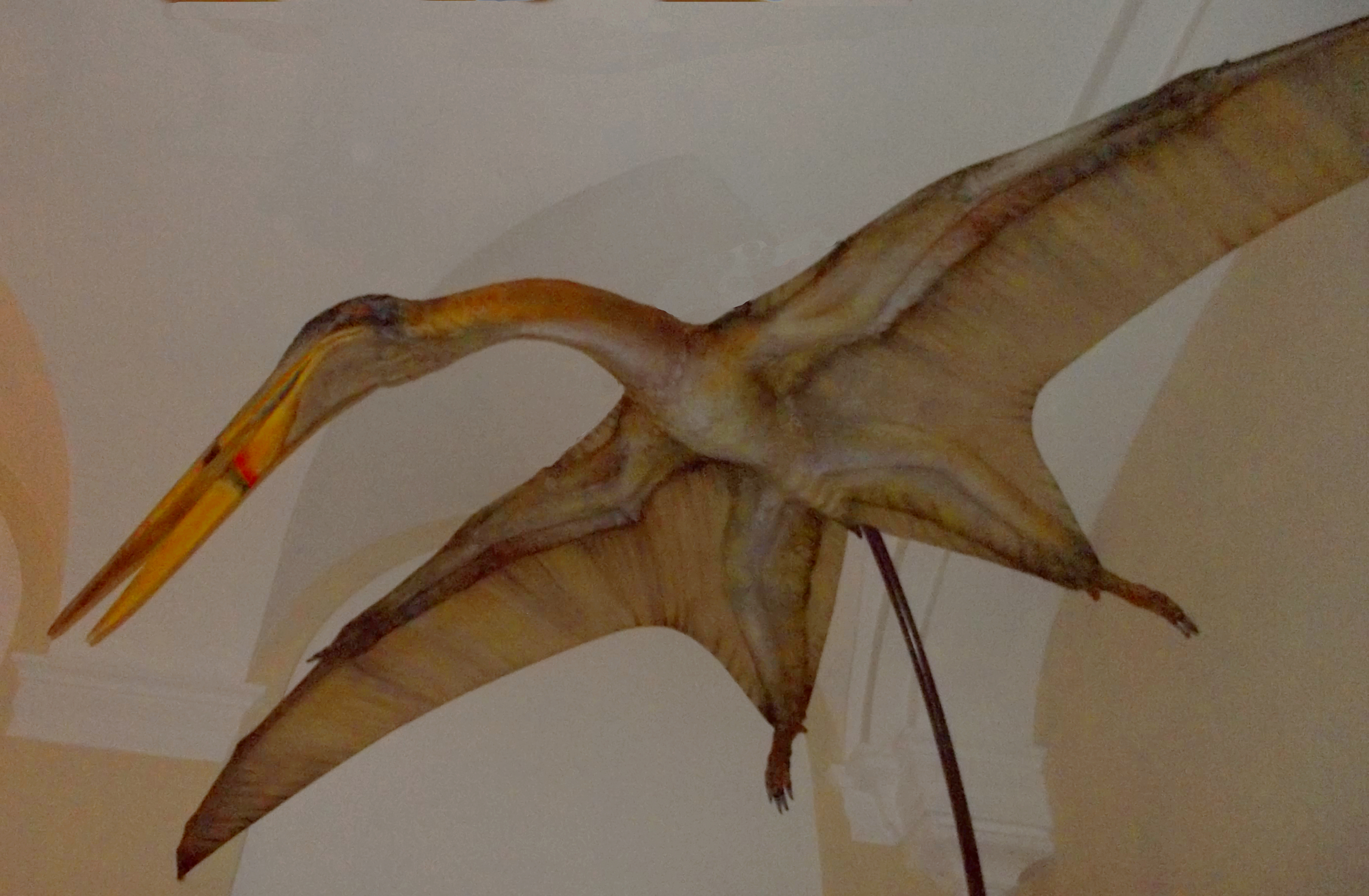 Reconstruction of an Alanqa saharica.